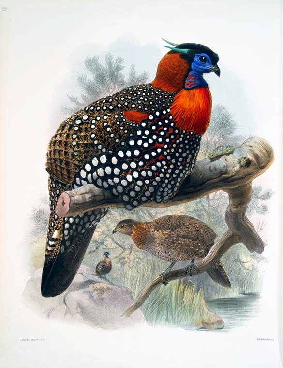 Western Tragopan (Tragopan melanocephalus)